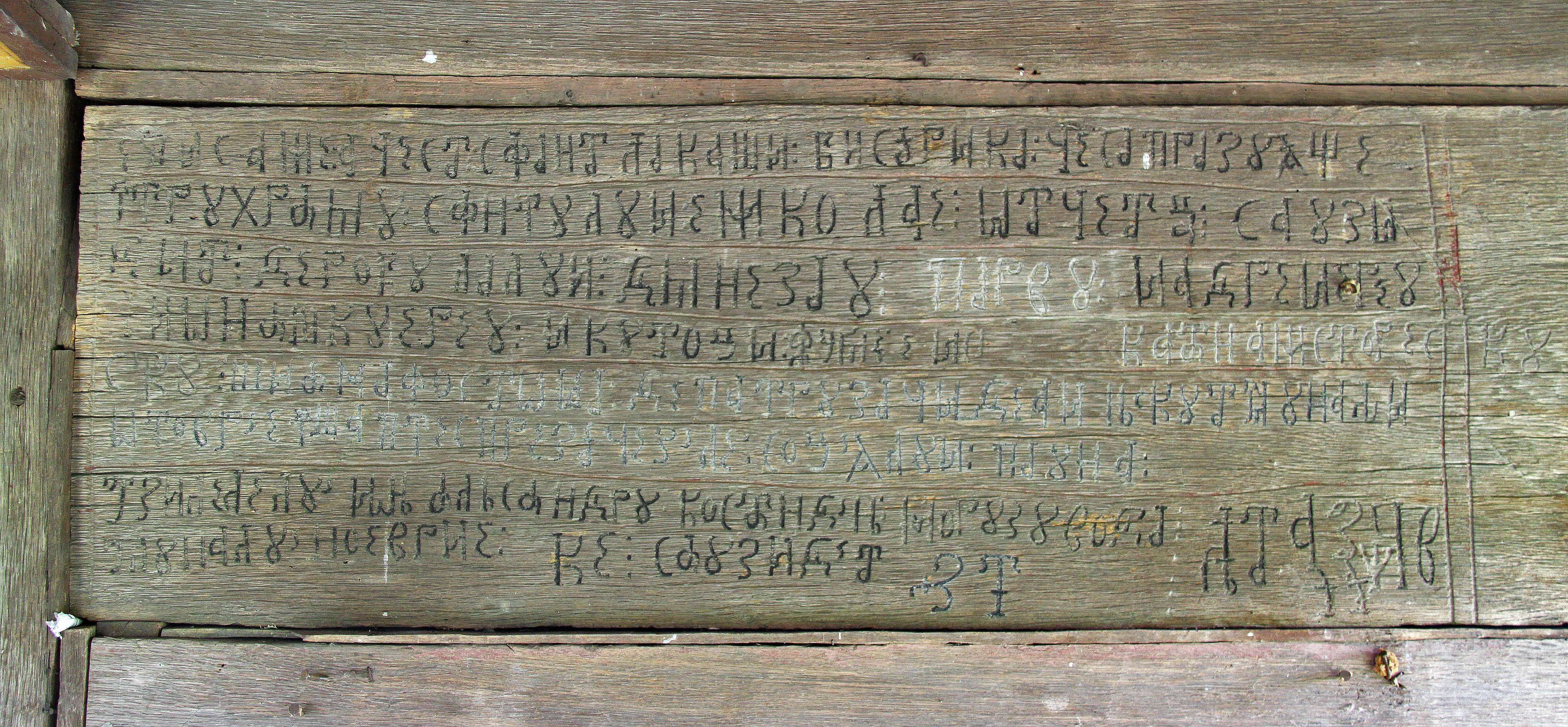 Cetăţeaua, Vâlcea: the wooden church. Dedication from the Byzantine year of 7300.